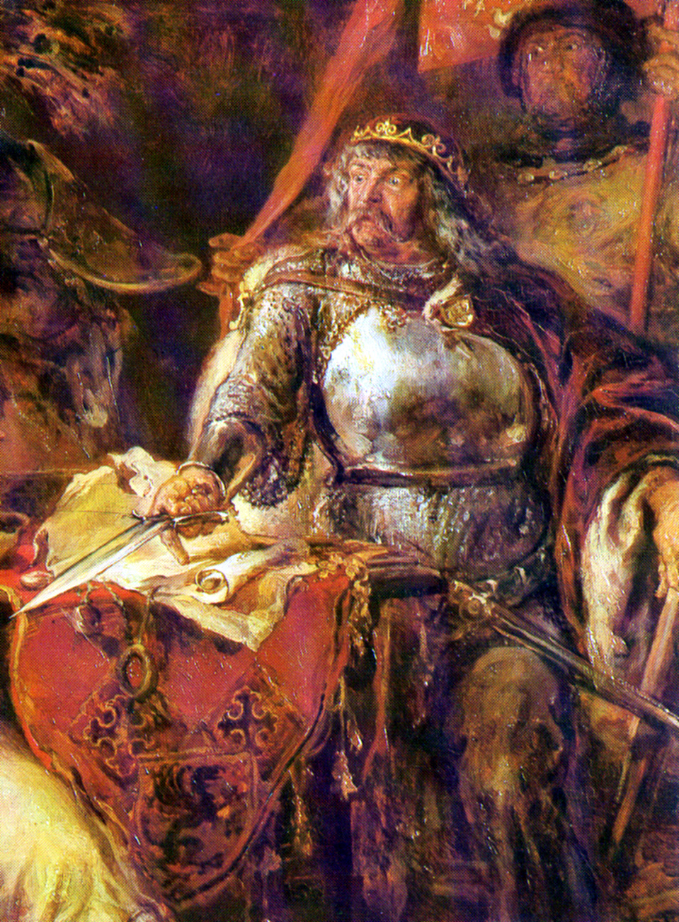 Polish king Wladislaus in medieval armour